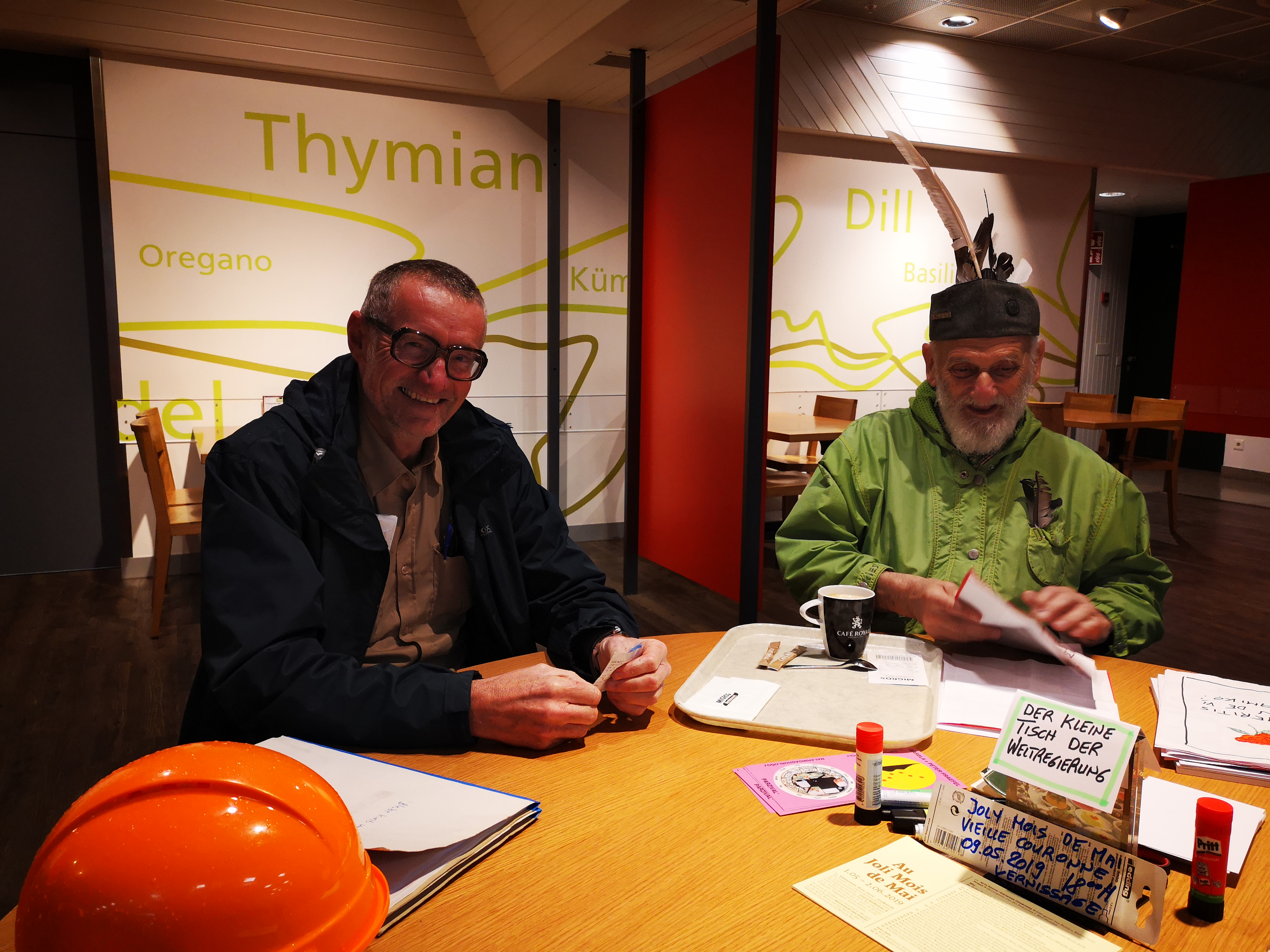 Thomas Hirschhorn during during Esperanto lesson with Parzival‘Esperanto: Thomas Hirschorn dum Esperanto-leciono kun Parzival